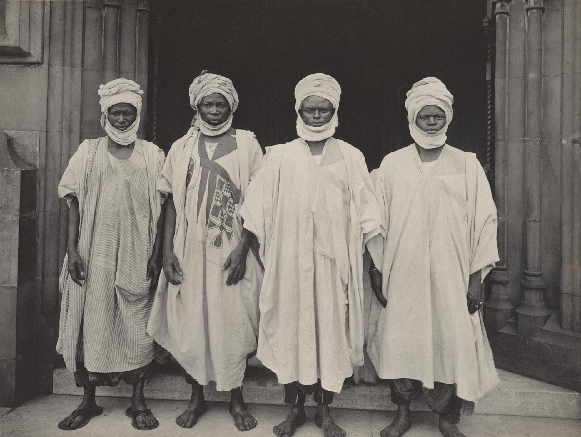 Four Hausa Gun Carriers of the South Nigerian Regiment, by Sir (John) Benjamin Stone (died 1914), given to the National Portrait Gallery, London in 1974. All images in this batch have been confirmed as author died before 1939 according to the official death date listed by the NPG.